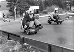 photo of surf racing users Pangasinan: photo de pratiquants au surf racing